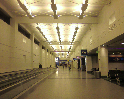 Detroit Metropolitan Wayne County Airport North Terminal